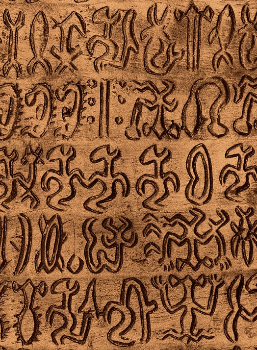 The rongorongo script of Easter Island. A closeup of the verso of the Small Santiago Tablet, showing parts of lines 3 (bottom) to 7 (top). The glyphs of lines 3, 5, and 7 are right-side up, while those of lines 4 and 6 are up-side down.